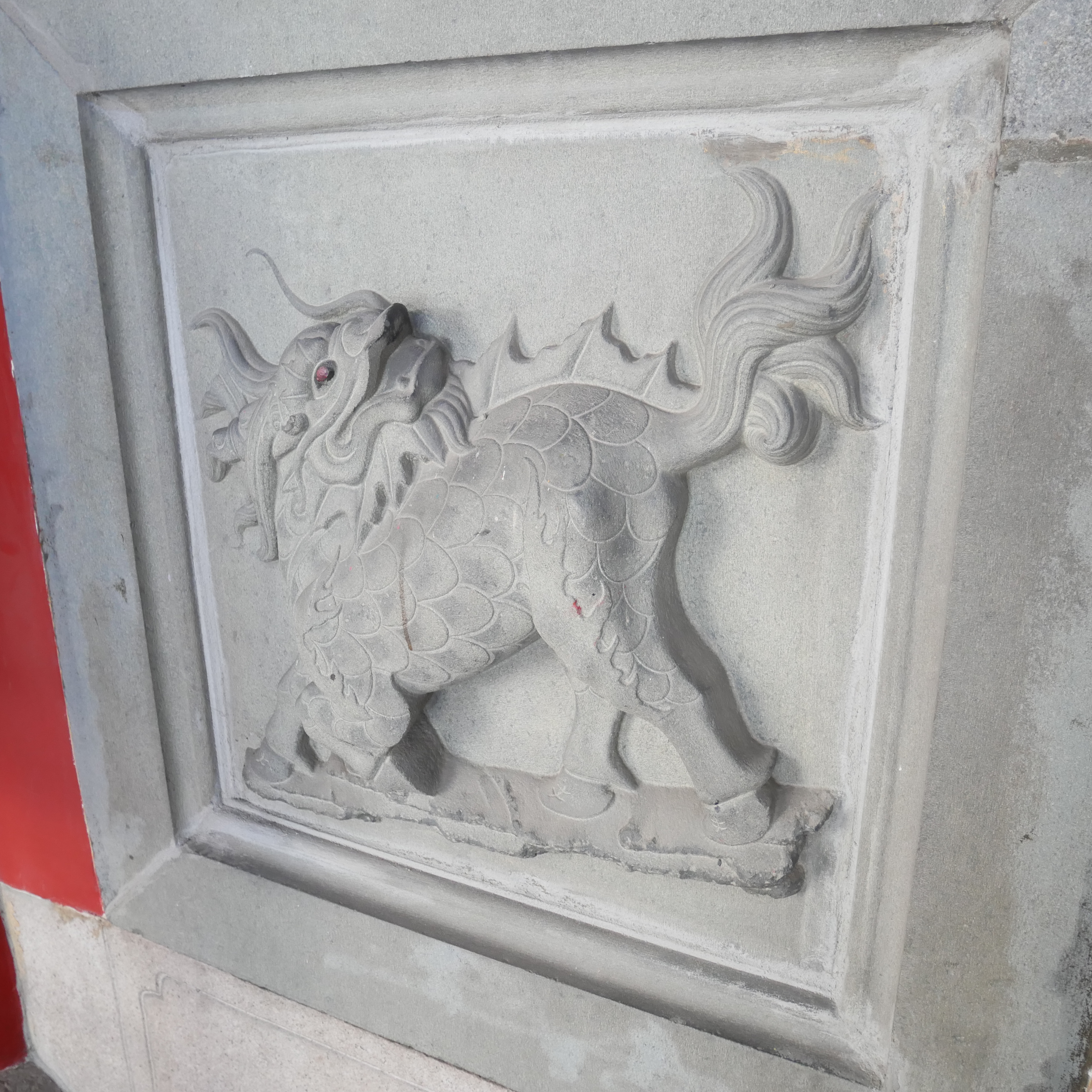 大天后宮三川殿麒麟堵，臺南市中西區赤崁里